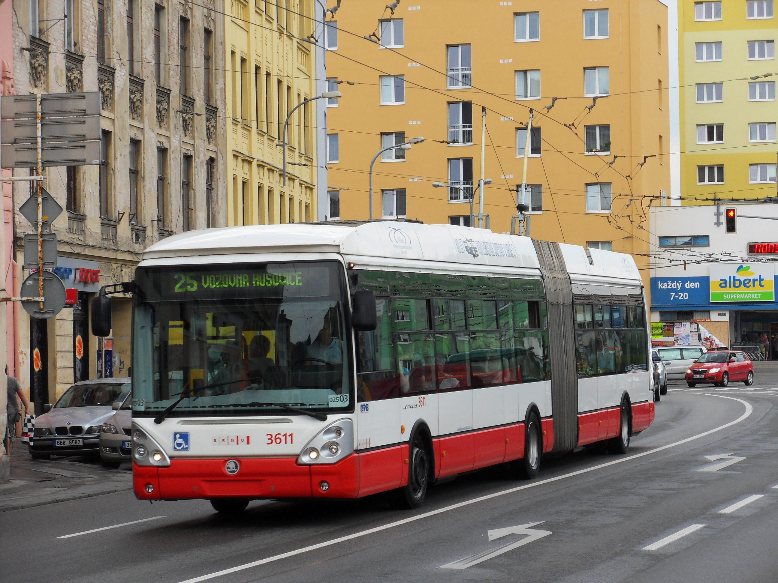 Škoda 25Tr Irisbus trolleybus No. 3611 of Dopravní podnik města Brna, Brno, Czech Republic